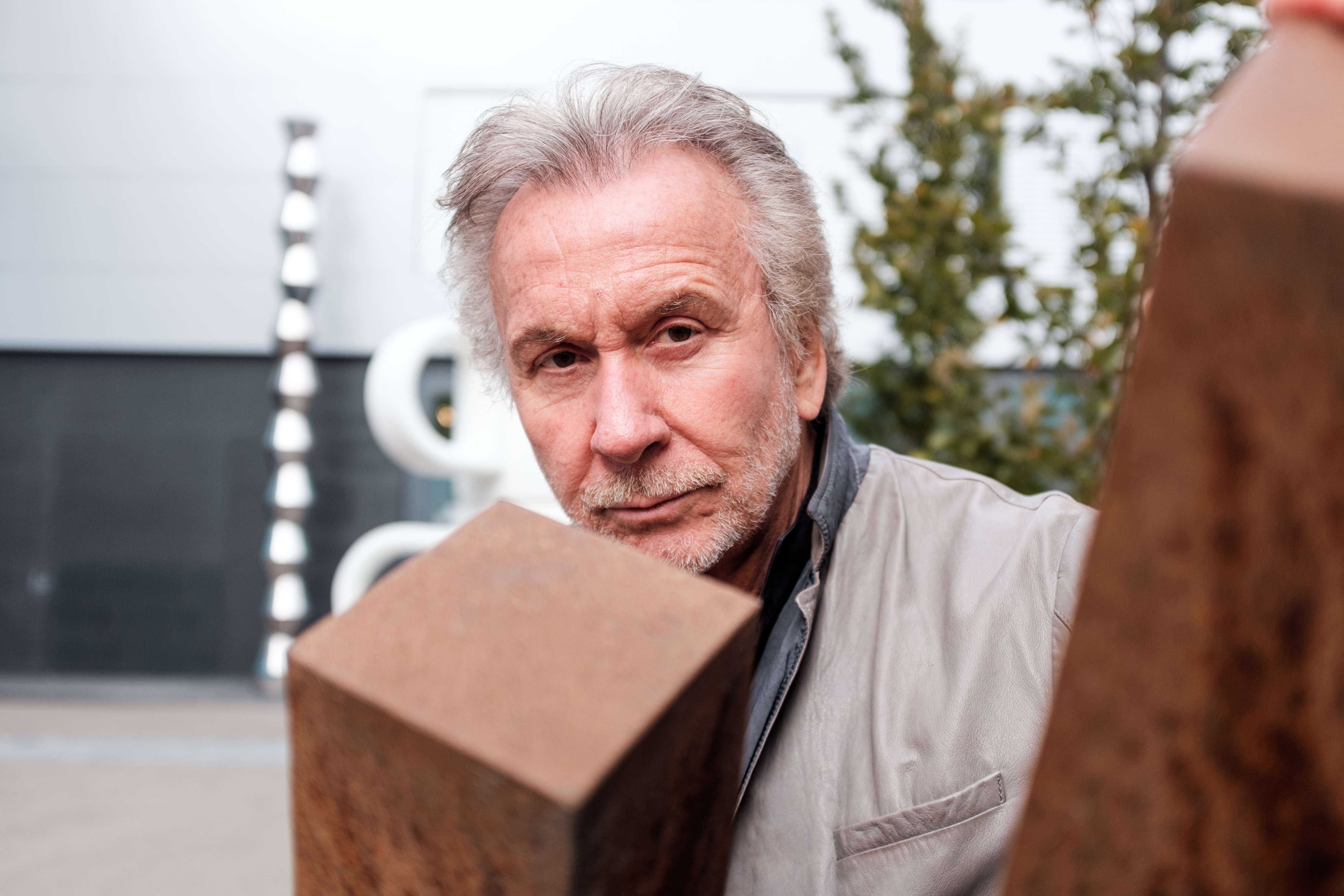 Bernar Venet (born 20 April 1941) is a French conceptual artist who has exhibited his works in various locations around the world.